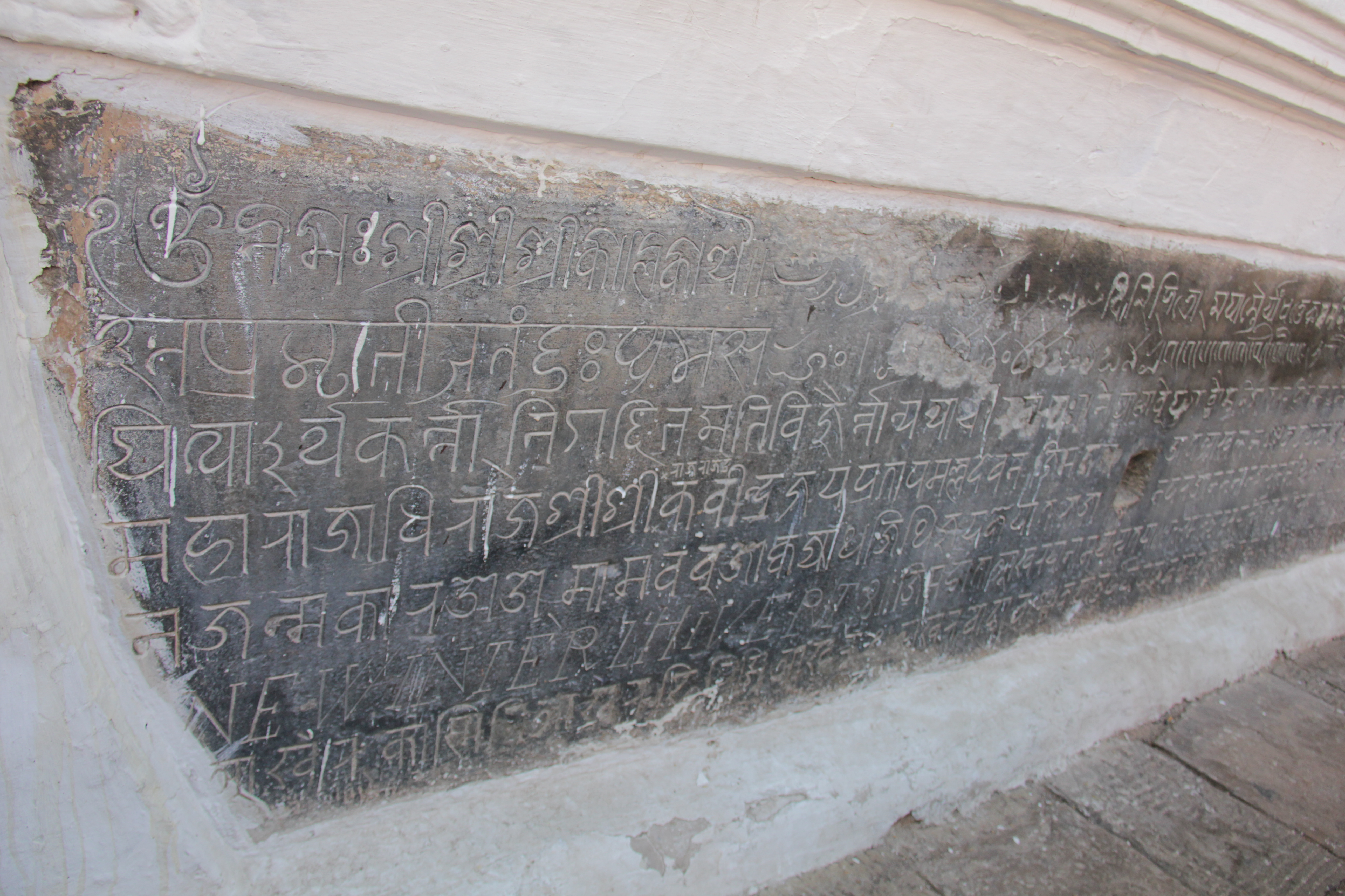 Jaldroni